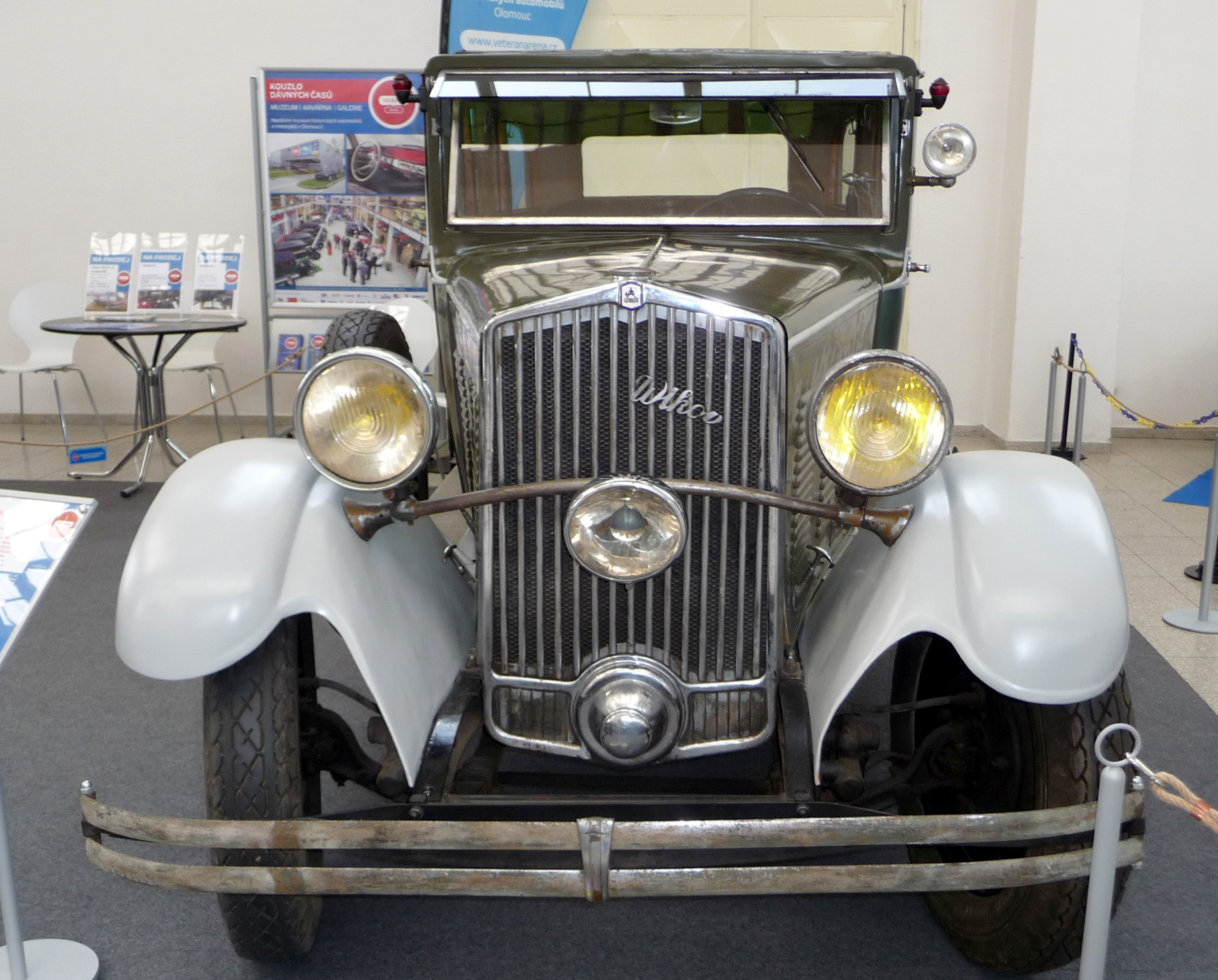 Wikov 35, year 1930, Classic Show Brno 2011, The Brno Exhibition Grounds -10 -5 -3 -2 ◄ ► +2 +3 +5 +10